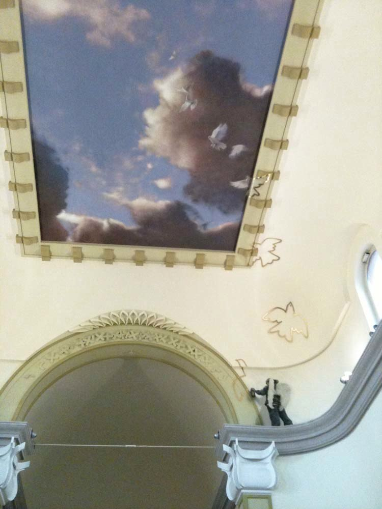 "With this work, realized by the italian artist Davide Eron Salvadei in 2010, for the first time in history, street art, enters in the temple where Art has been transcending time from centuries... the church"